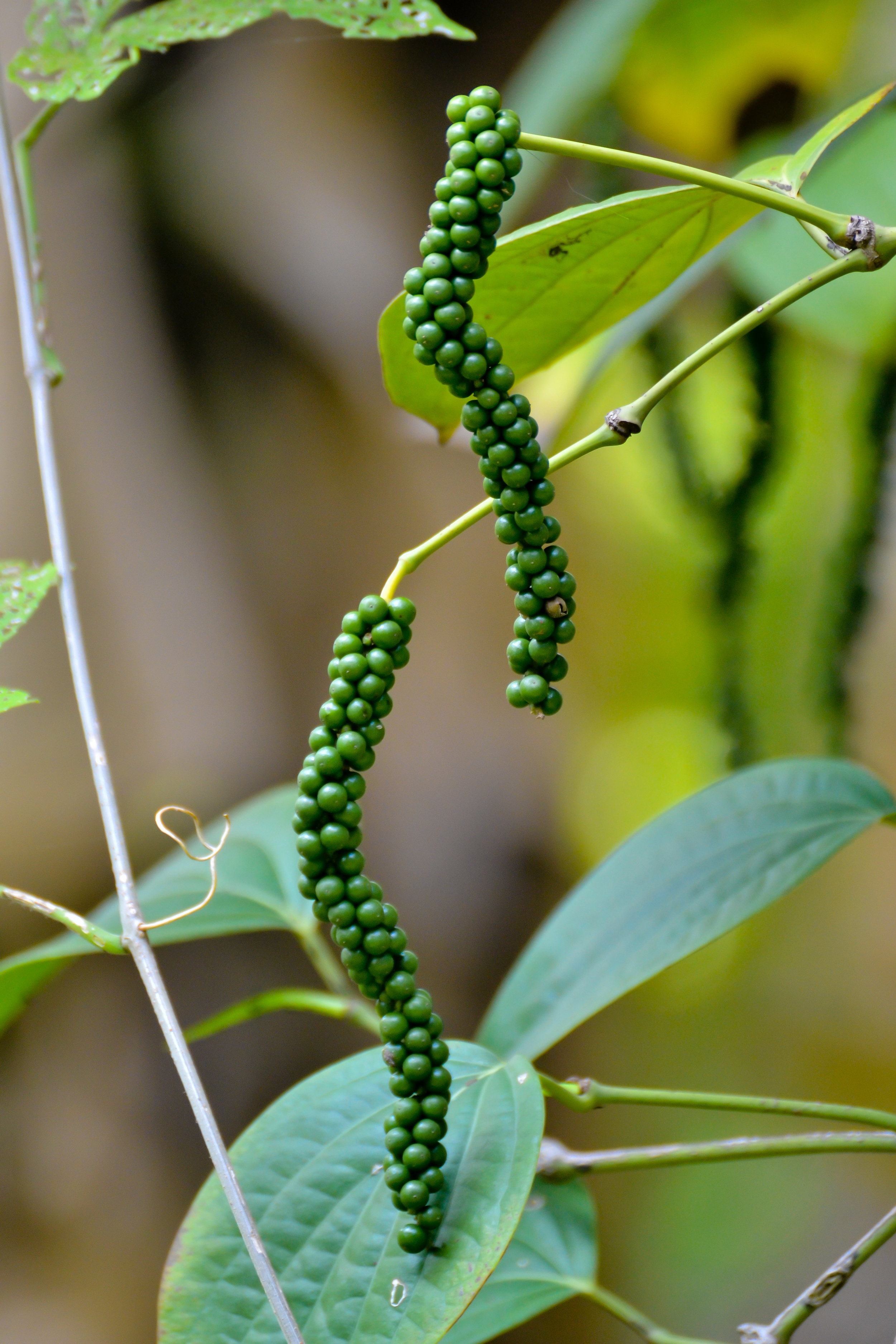 Unripe drupes of Piper nigrum in November at Trivandrum, Kerala, India. Black pepper is produced from these unripe drupes. The drupes are cooked briefly in hot water. The heat ruptures cell walls in the pepper, speeding the work of browning enzymes during drying. The drupes are dried for several days, during which the pepper around the seed shrinks and darkens into a thin, wrinkled black layer. Once dried, the spice is called black peppercorn. White pepper consists of the seed of the pepper plant alone, with the darker coloured skin of the pepper fruit removed. This is usually accomplished by a process known as retting, where fully ripe red pepper berries are soaked in water for about a week, during which the flesh of the pepper softens and decomposes. Rubbing then removes what remains of the fruit, and the naked seed is dried.